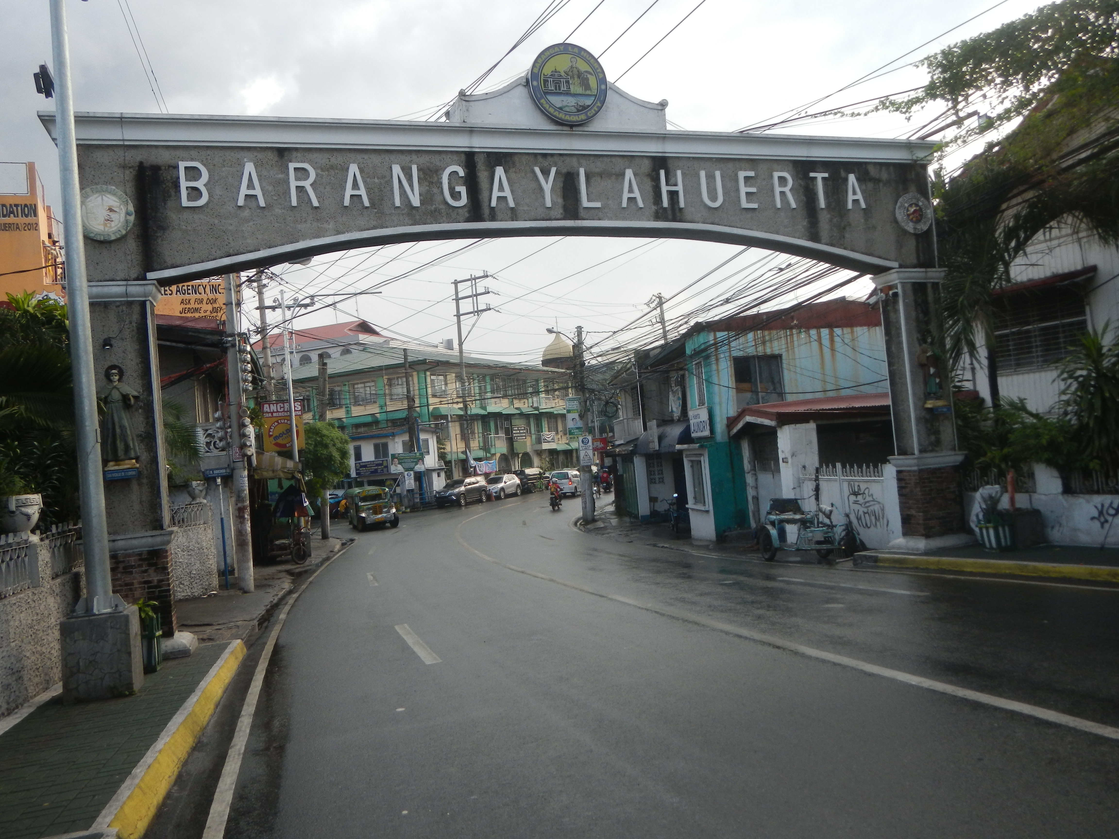 Legislative districts of Parañaque 1st District, Districts and barangays, Barangay La Huerta 14°29'50"N 120°59'43"E beside Tambo 14°30'59"N 120°59'20"E San Dionisio 14°29'2"N 120°59'33"E Baclaran, Parañaque City along Elpidio Quirino Avenue Don Galo-La Huerta Bridge, Parañaque City Sta. 9+766-Sta.9+841 Load limit 20 metric tons upon Parañaque River from and to Roxas Boulevard, Radial Road 2 from Baclaran LRT station (Note: Judge Florentino Floro, the owner, to repeat, Donor Florentino Floro of all these photos hereby donate gratuitously, freely and unconditionally Judge Floro all these photos to and for Wikimedia Commons, exclusively, for public use of the public domain, and again without any condition whatsoever).